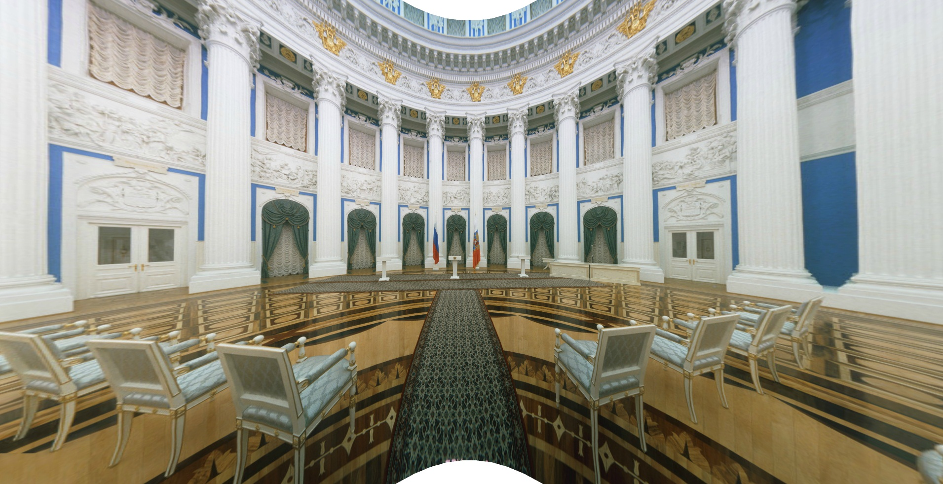 Catherine hall. Senate Palace Moscow Kremlin